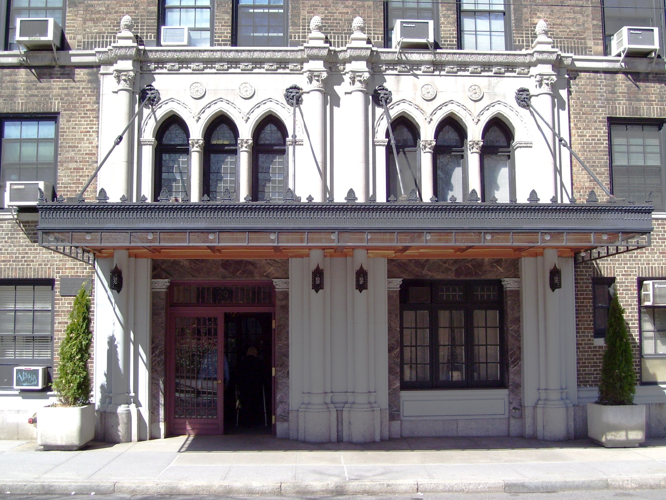 29 Washington Square West, between Waverly Place and Washington Place in the Greenwich Village neighborhood of Manhattan, New York City, was built in 1927. (Source: NYC GIS map)